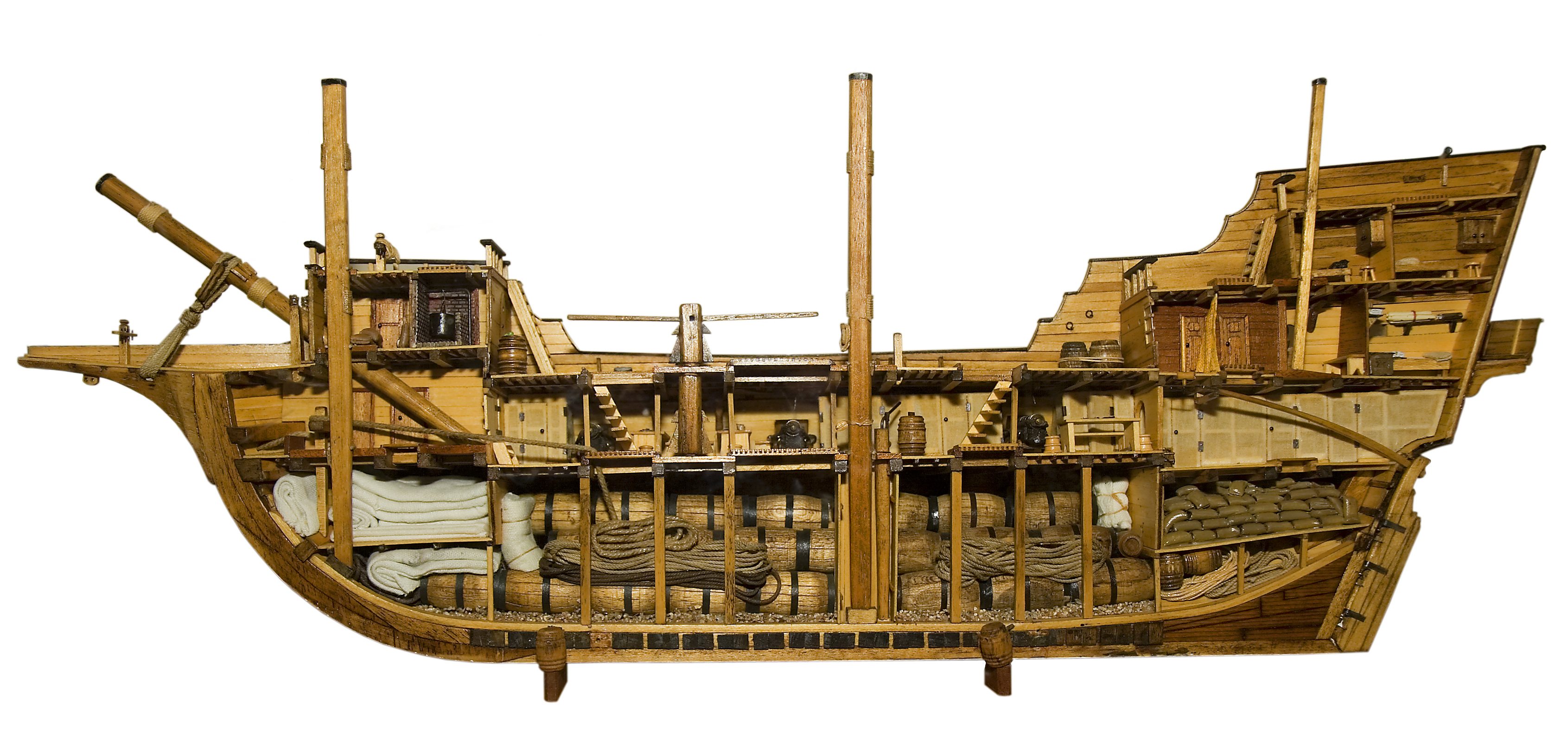 Model of a 17th century English merchantman ship of about 400 tons